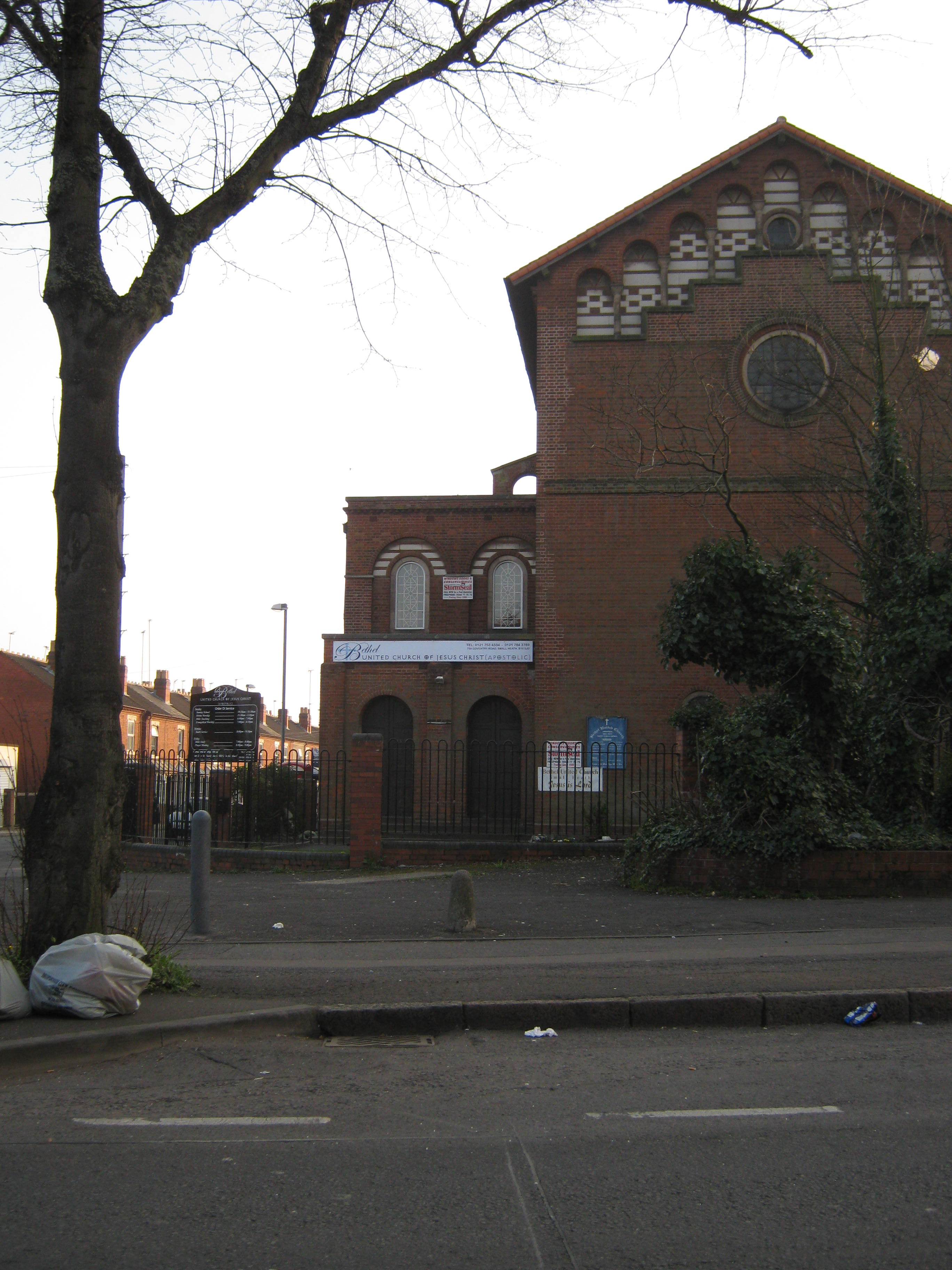 Bethel United Church of Jesus Christ Apostolic, Coventry Road, Small Heath, Birmingham. Built ijn 1912 as the Church of England parish church of St Gregory the Great